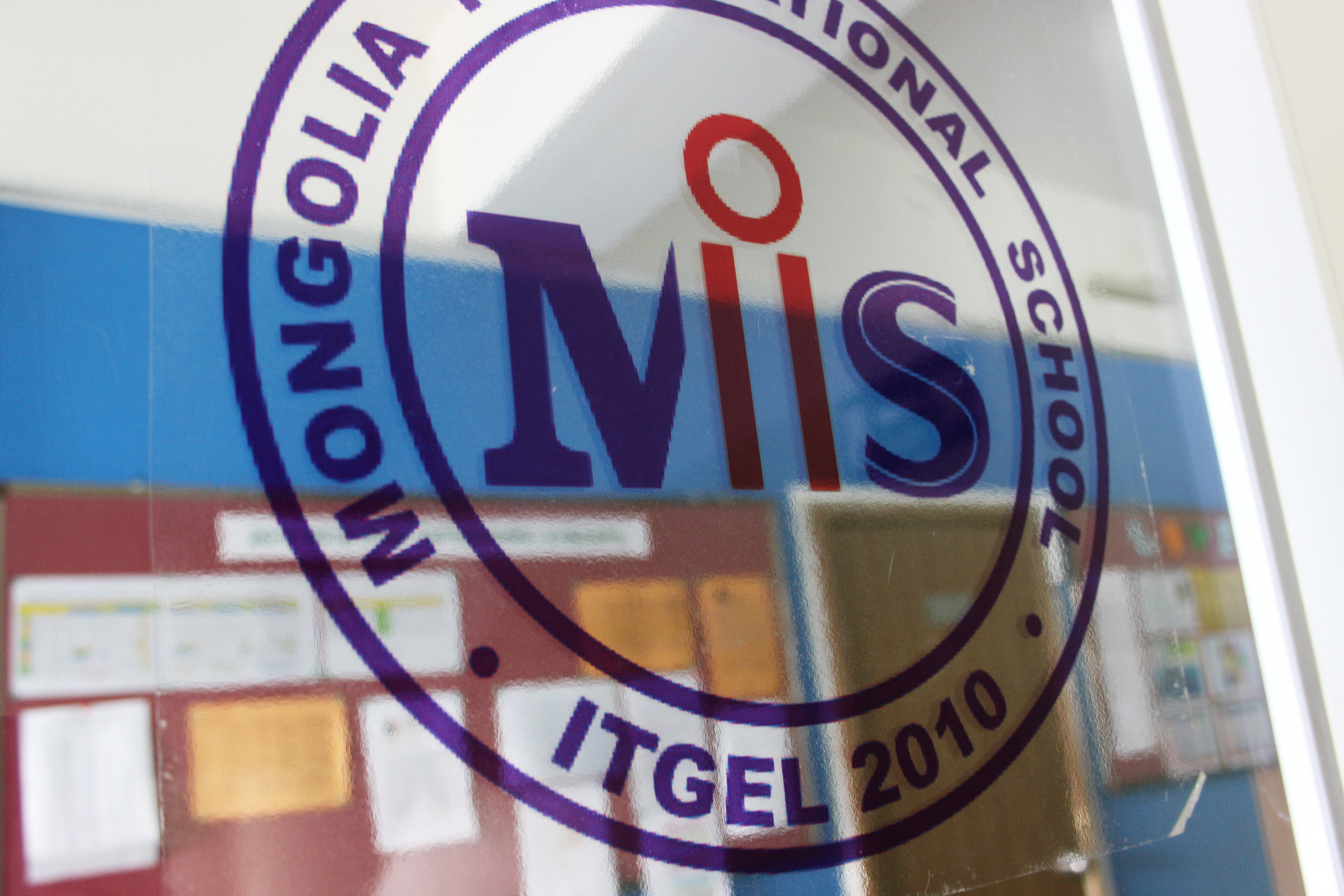 Mongolia International School logo